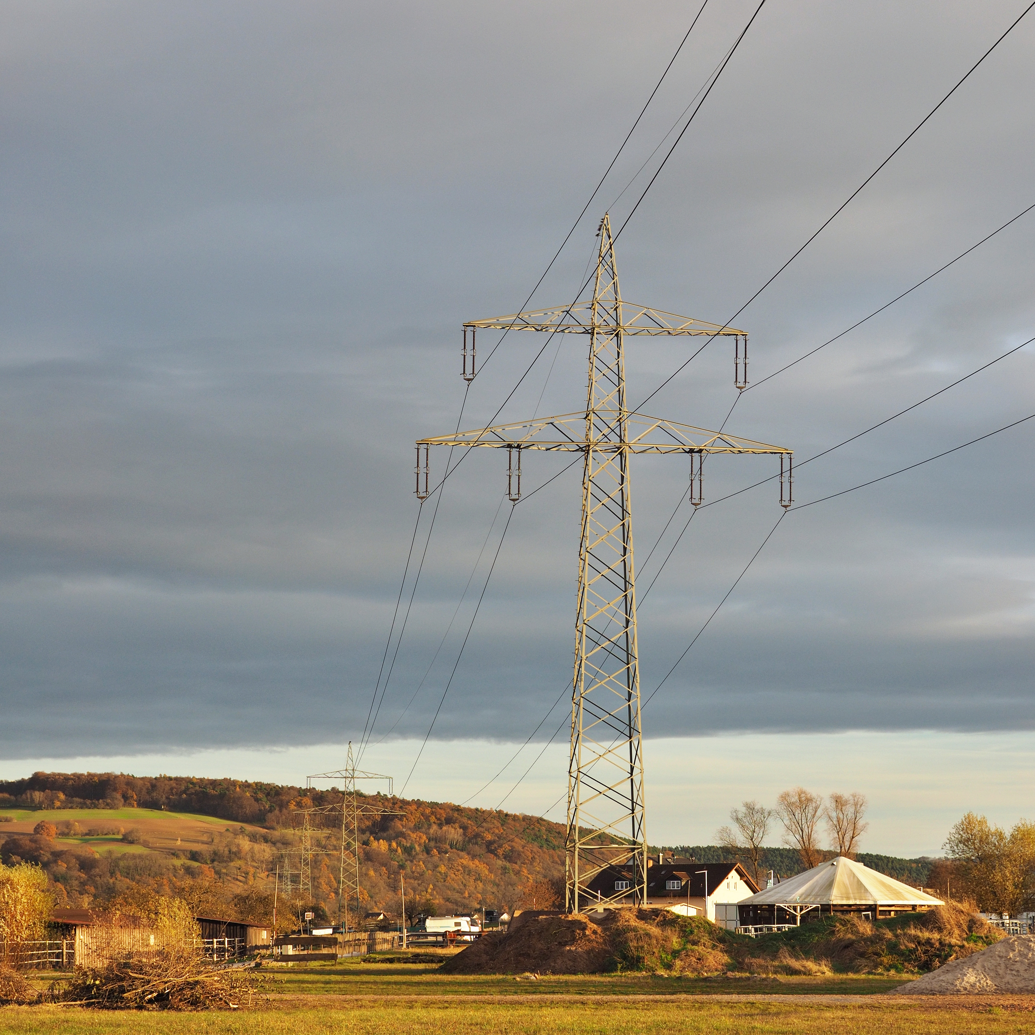 220 kV line Trennfeld–Aschaffenburg, Germany